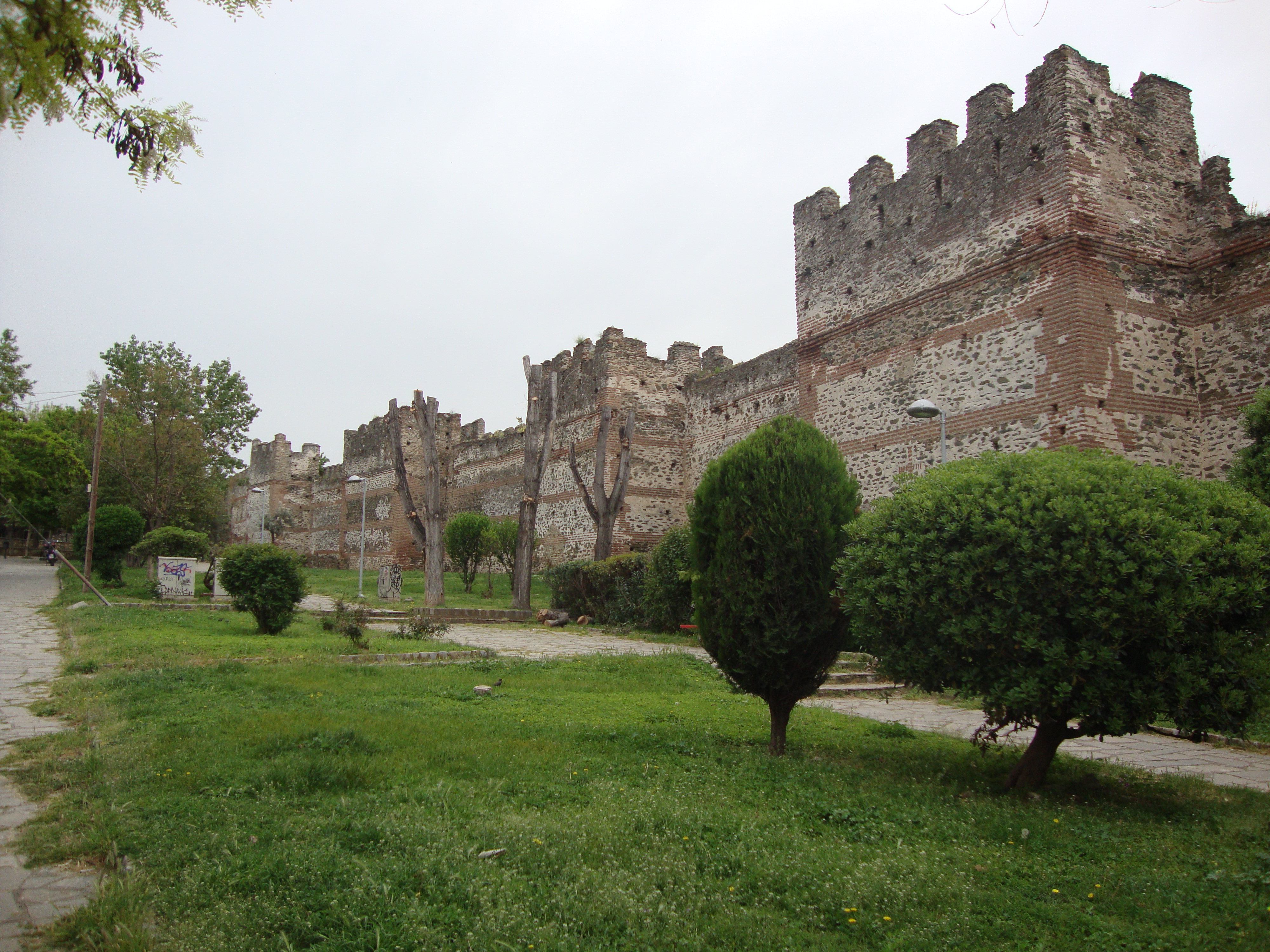 Thessalonikki, Macedonia, Greece